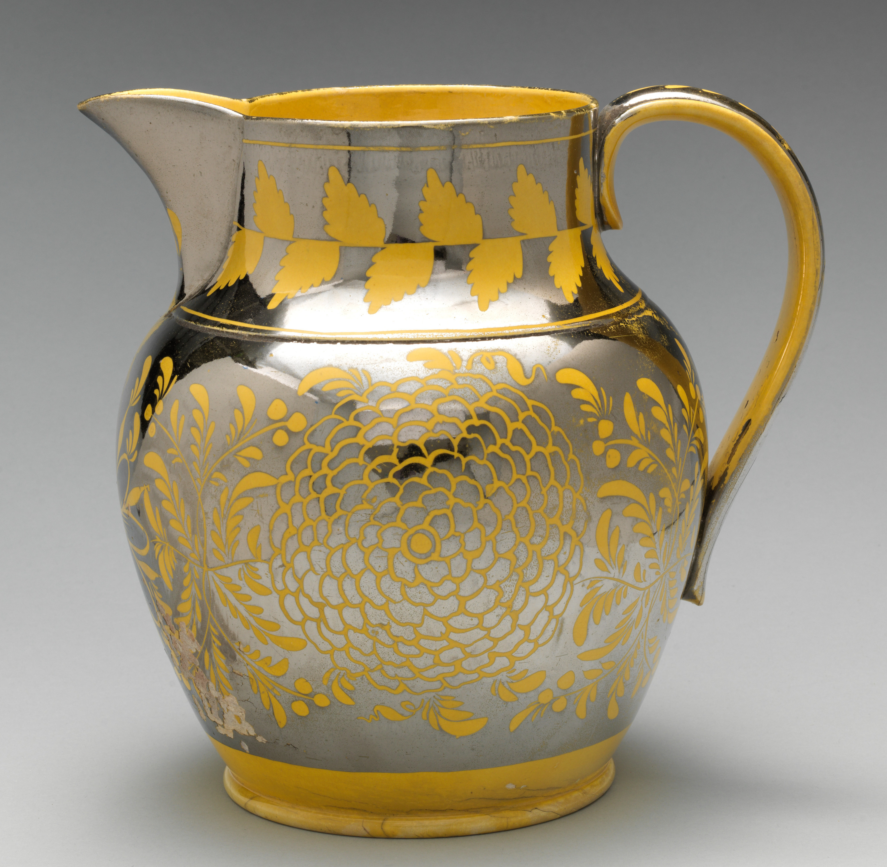 British, Staffordshire; Jug; Ceramics-Pottery